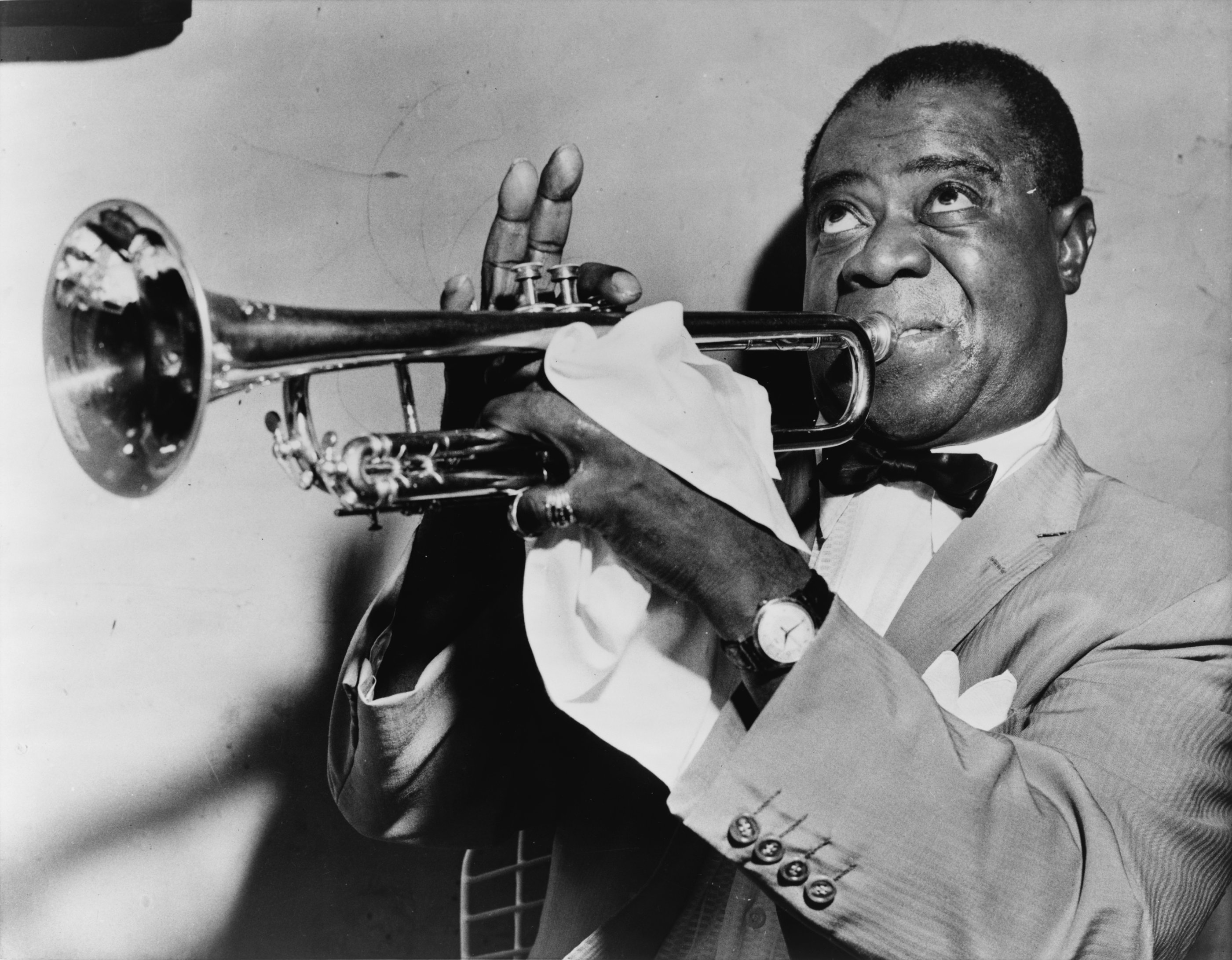 Louis Armstrong, jazz trumpeter